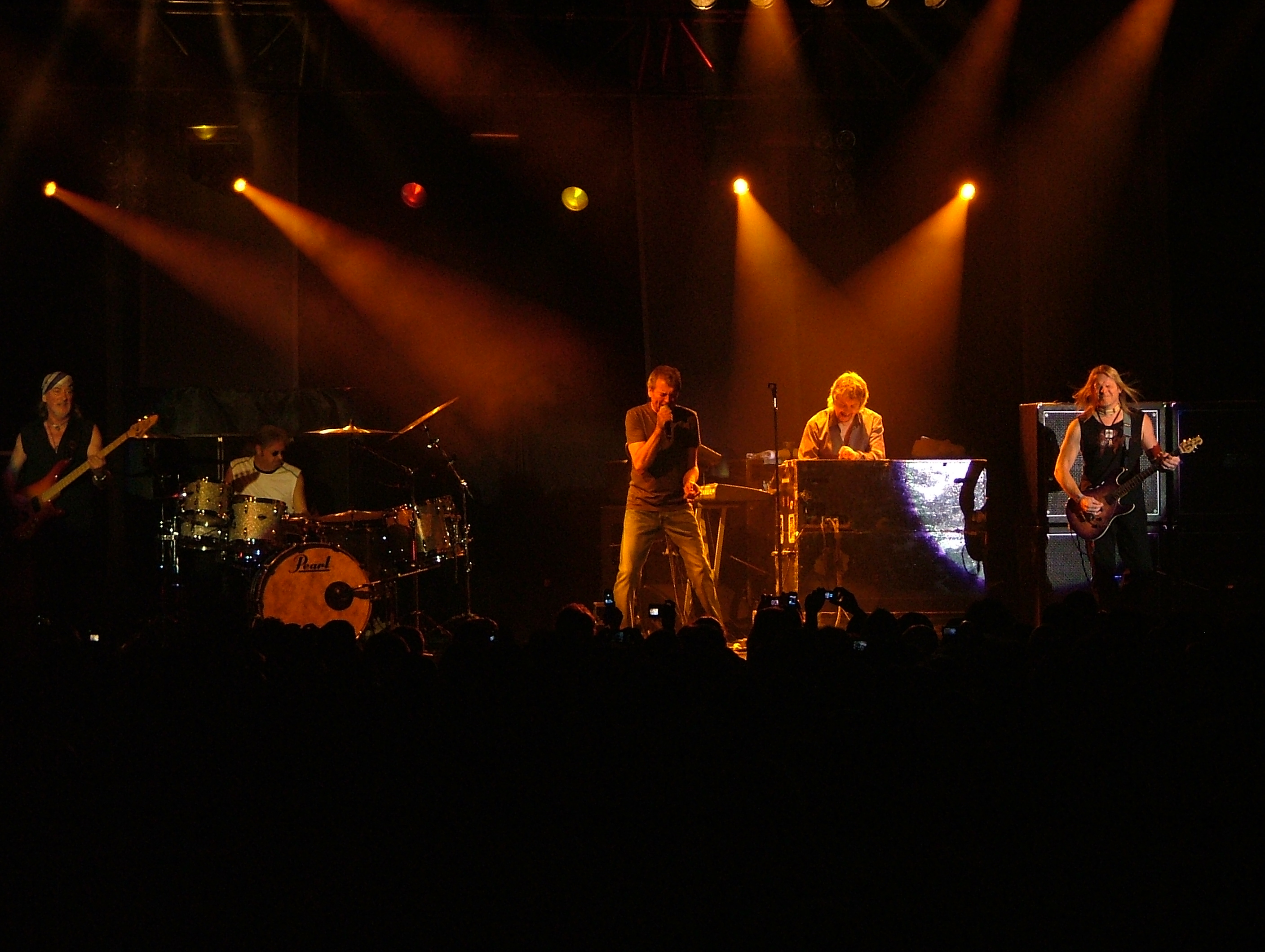 Deep Purple live at Hangar 11, Tel Aviv on 09.09.08